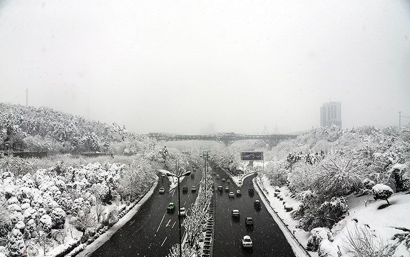 A snowy day in Tehran, 2018